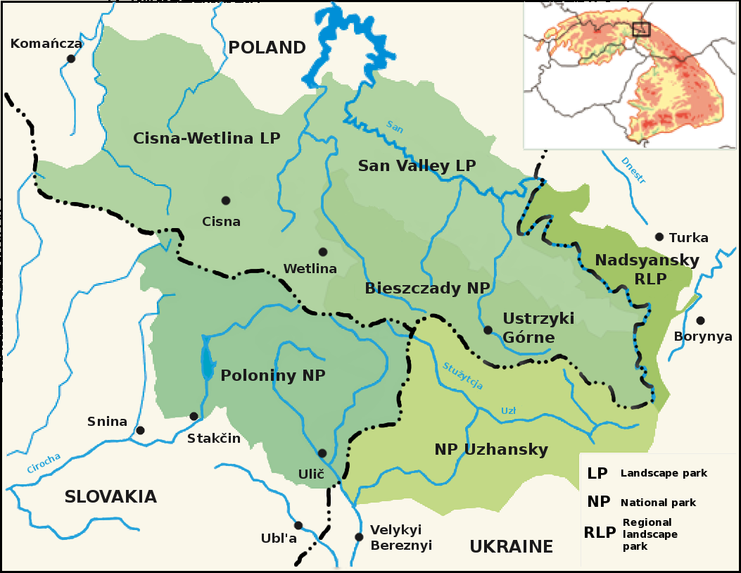 Map of the East Carpathian Biosphere Reserve. Composed of national parks and other protected areas in Poland, Slovakia, and the Ukraine. International (3-side, english)